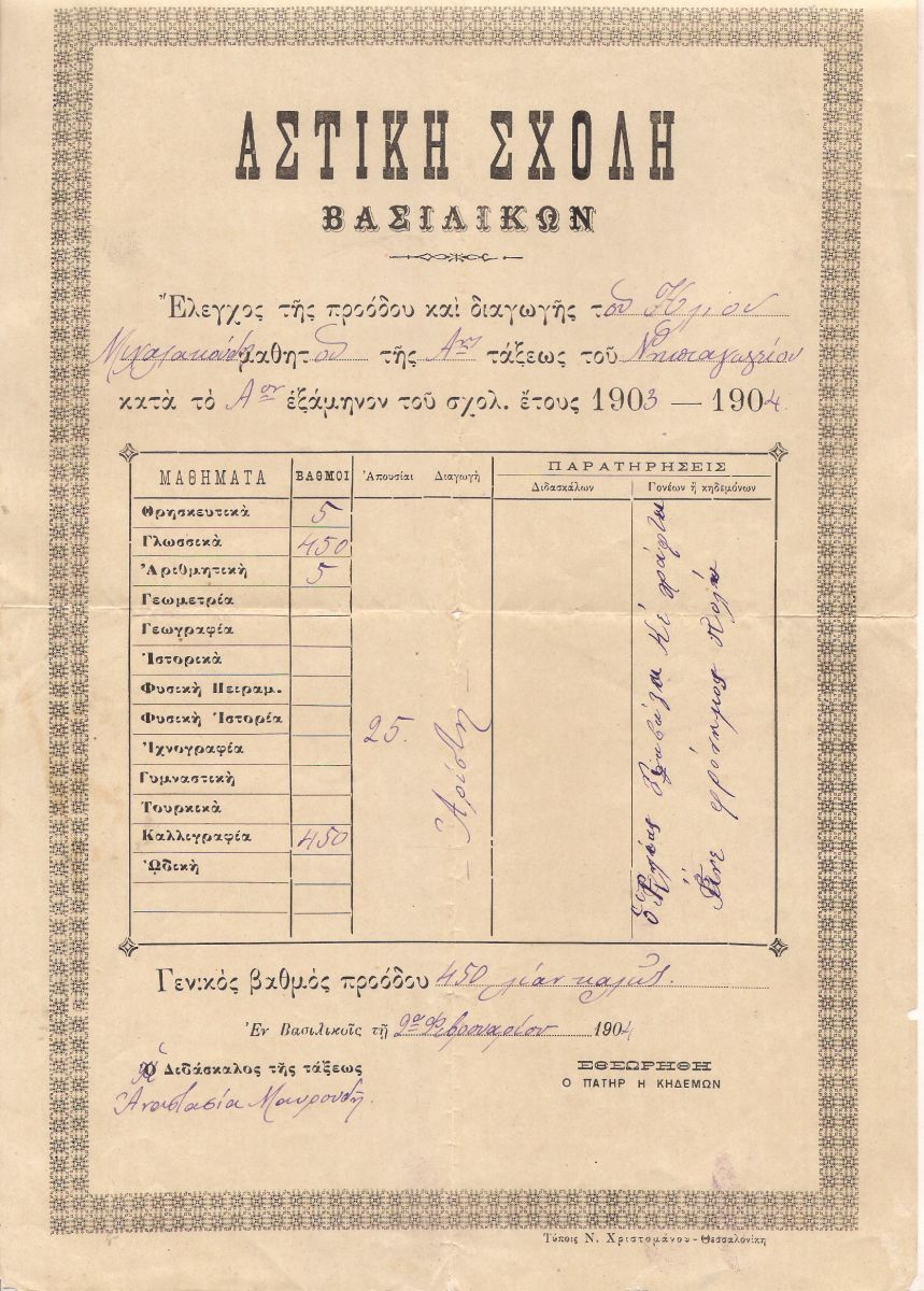 Document of the Thessaloniki Greek Municipality